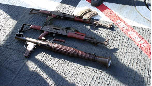 Indian Ocean (March 18, 2006) - Confiscated weapons lay on the deck of guided missile cruiser USS Cape St. George (CG 71) following an early-morning engagement with suspected pirates. Cape St. George and USS Gonzalez (DDG 66) were fired upon while preparing to board a suspect vessel operating in international waters off the coast of Somalia. One suspect was killed and 12 were taken into custody. Coalition forces conduct maritime security operations to ensure security and safety in international waters so legitimate mariners can operate freely while transiting the region. U.S. Navy photo (RELEASED)